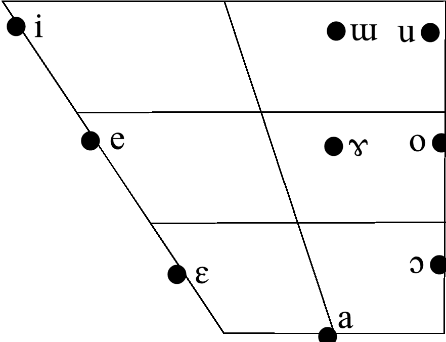 IPA vowel chart for Thai monophthongs